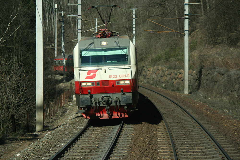 An ÖBB class 1822 on the Brenner ramp between Innsbruck and the Brenner pass